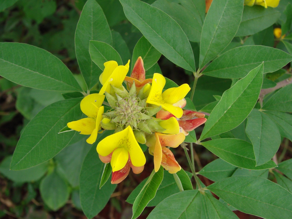 Crotalaria micans Link (sin. het. Crotalaria anagyroides Kunth; Crotalaria brachystachya Benth. ) - FABACEAE - Parque Vivencial Asa Norte - Brasília - Distrito Federal - Brasil.